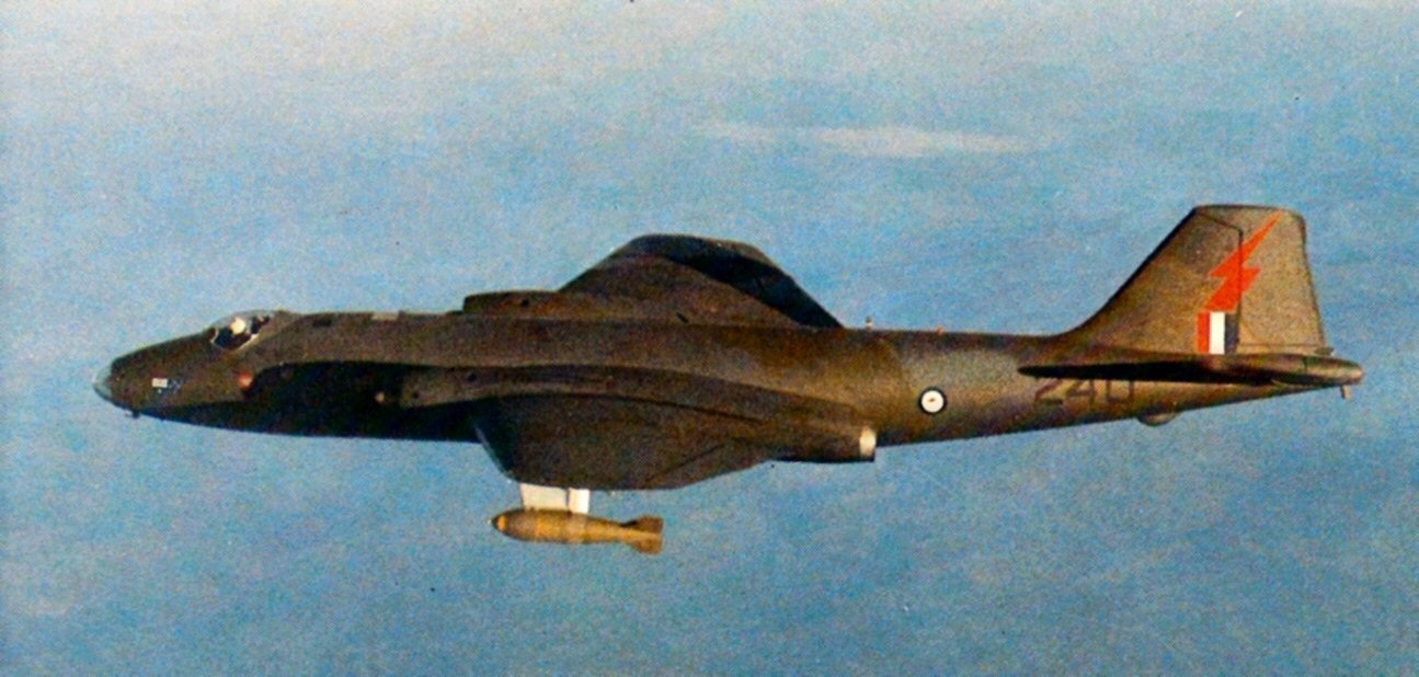 A Royal Australian Air Force English Electric Canberra B20 from No. 2 Squadron during a strike out of Phan Rang air base, Vietnam, in March 1970.